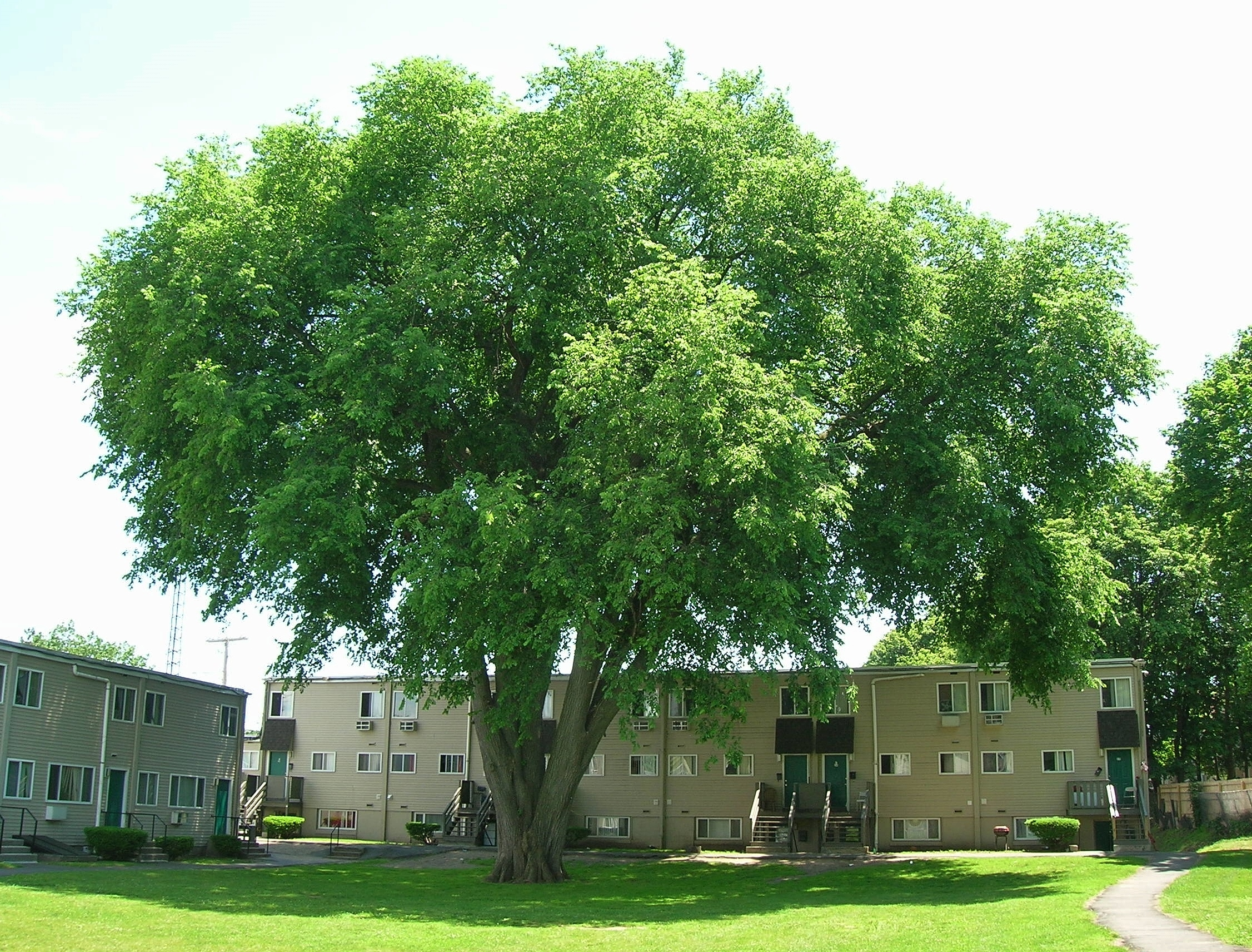 Photograph from June 2017 of a large American elm located in the "Elm City" (New Haven), Connecticut.